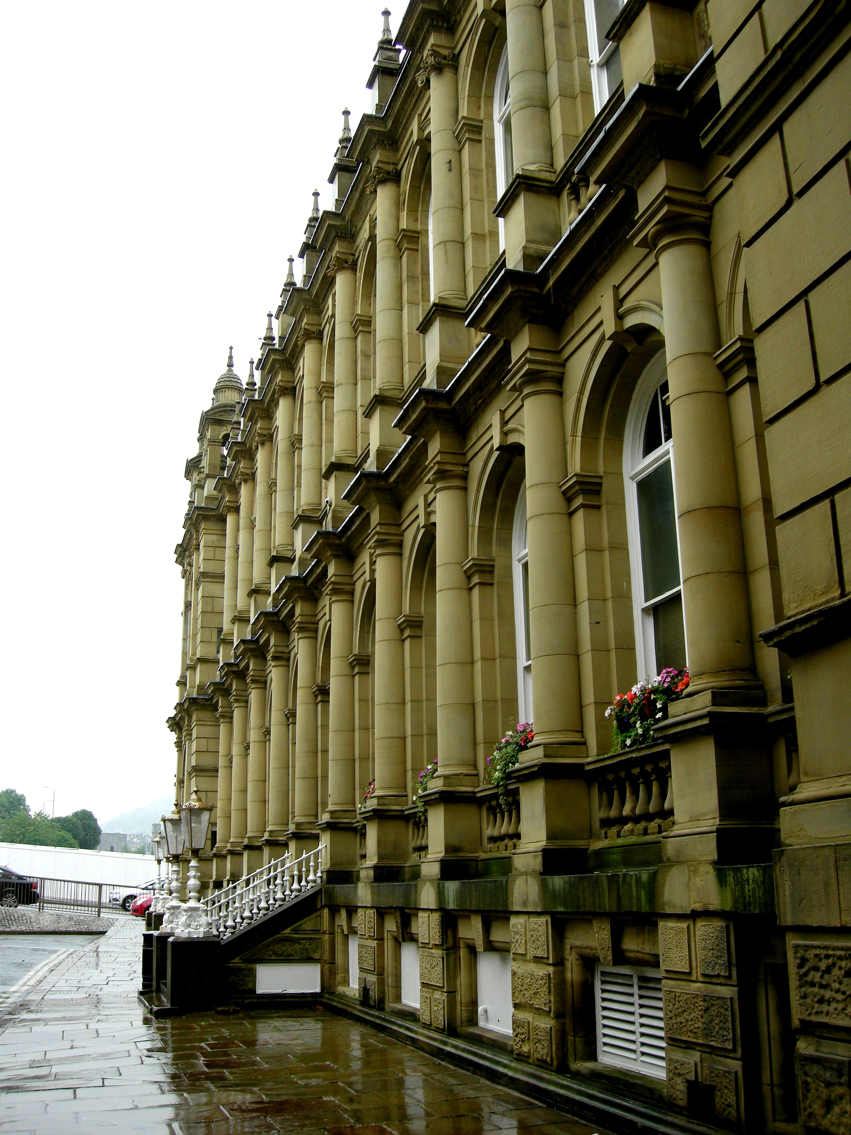 Town Hall, Halifax, West Yorkshire, England. 53 43'28"N. 1 51'38"W.